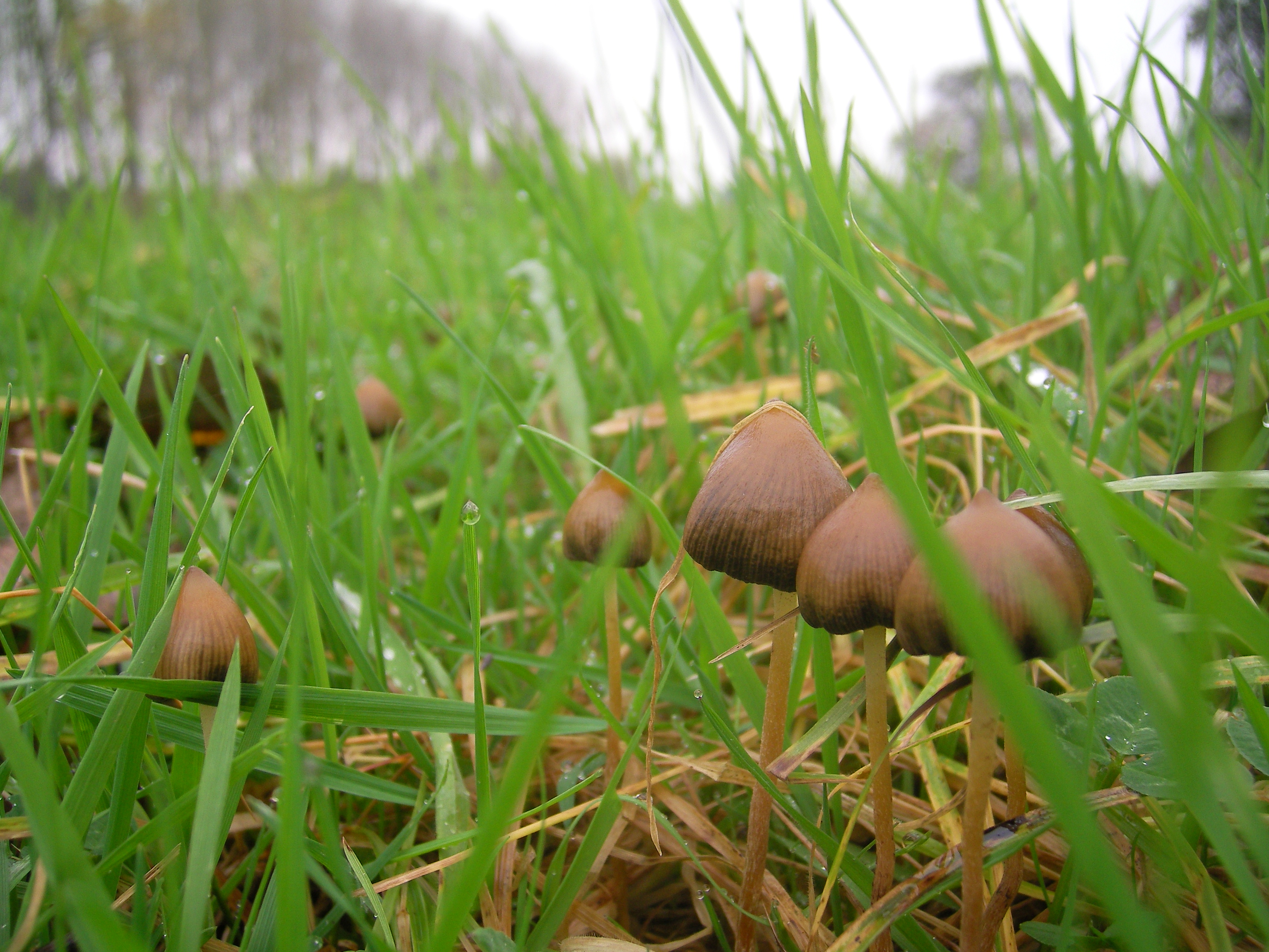 psilocybe semilanceata group in Belgium